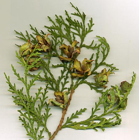 Platycladus orientalis foliage and cones - photo MPF